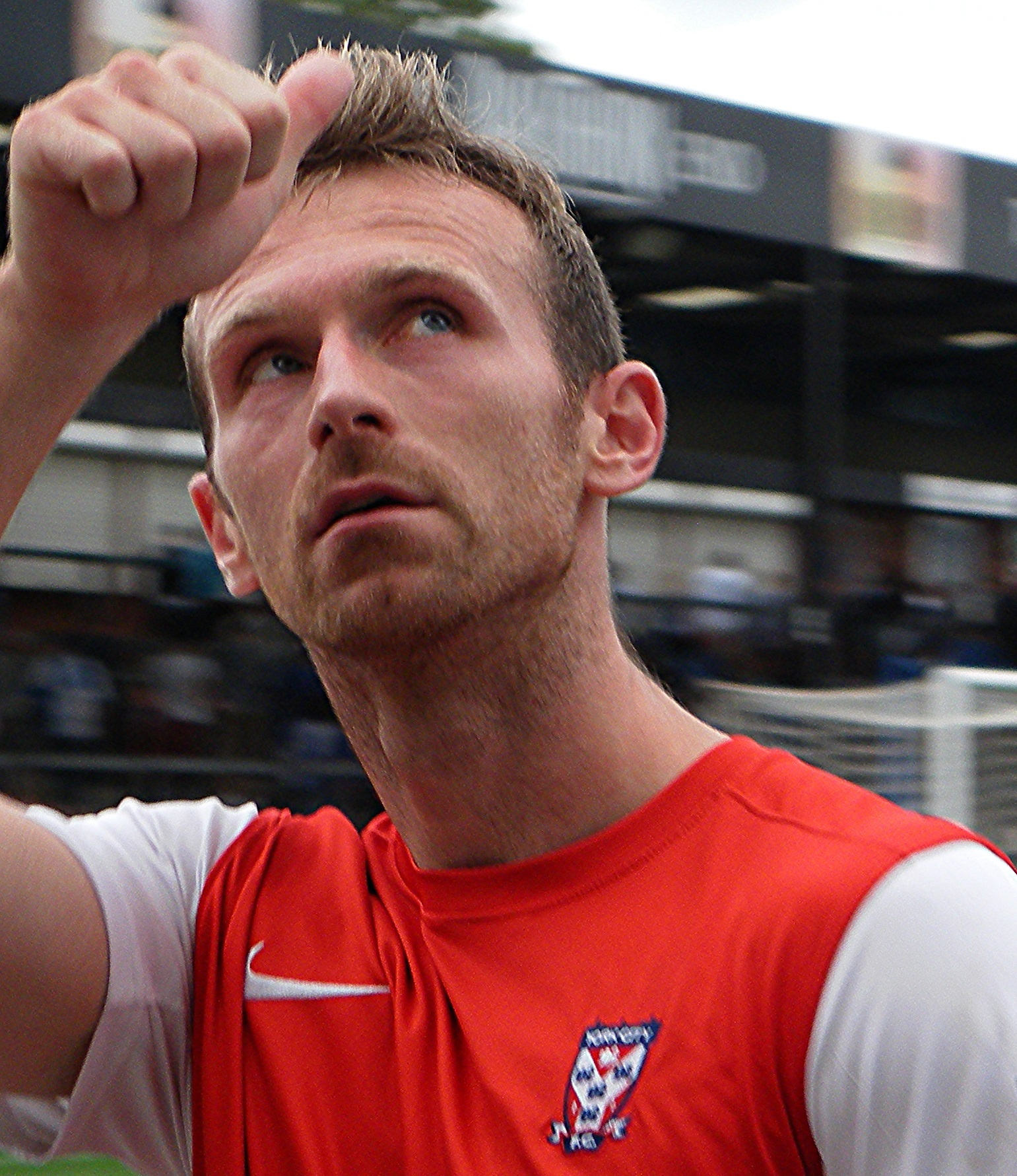 Ryan Jarvis after York City's match against Bristol Rovers at the Memorial Stadium, Bristol on 24 August 2013